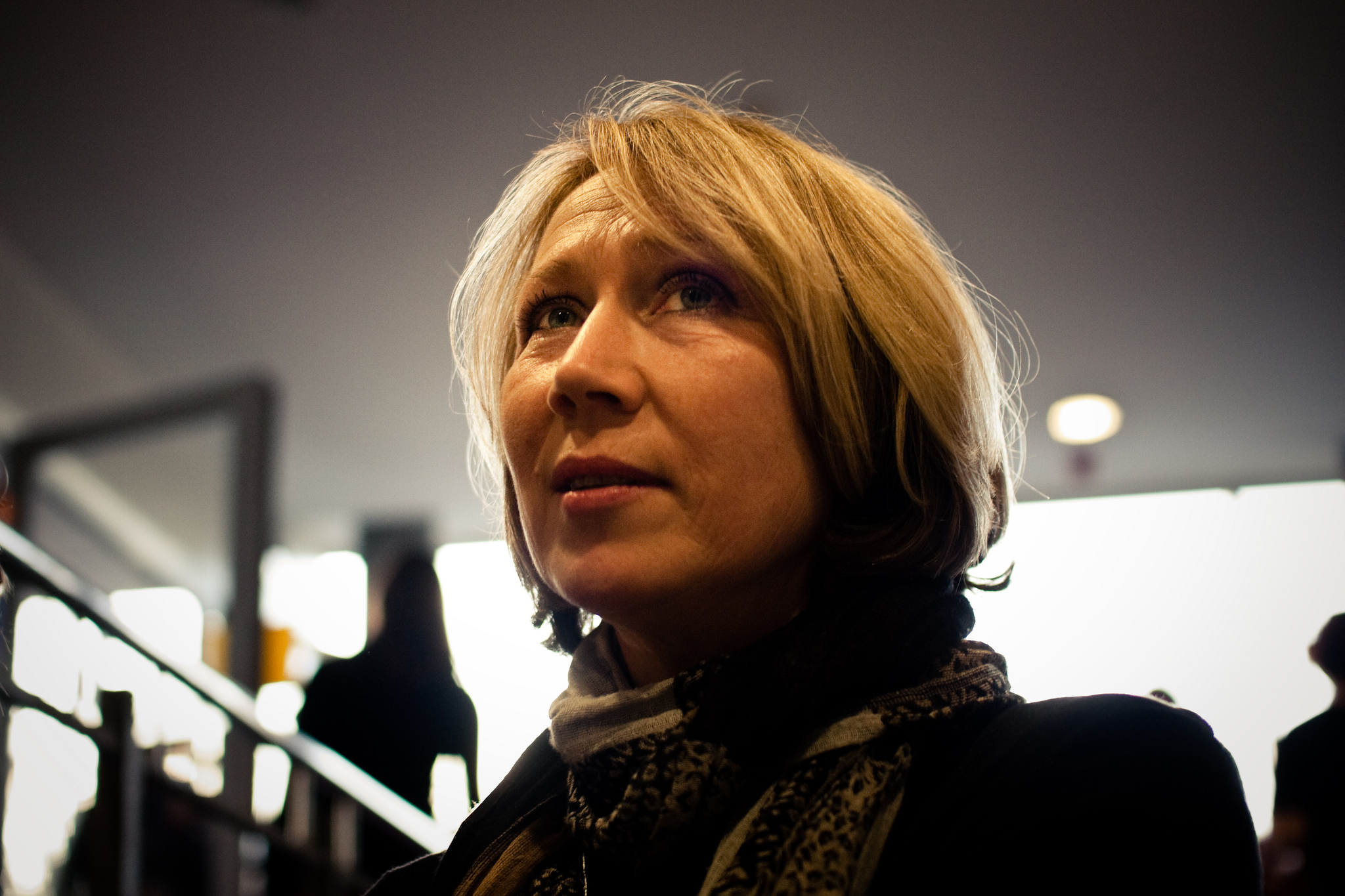 Külliki Saldre at Vanemuine theatre, 2010